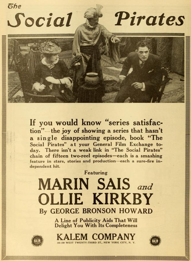 Advertisement in The Moving Picture World for the American film serial The Social Pirates (1916) with Marin Sais and Ollie Kirby.